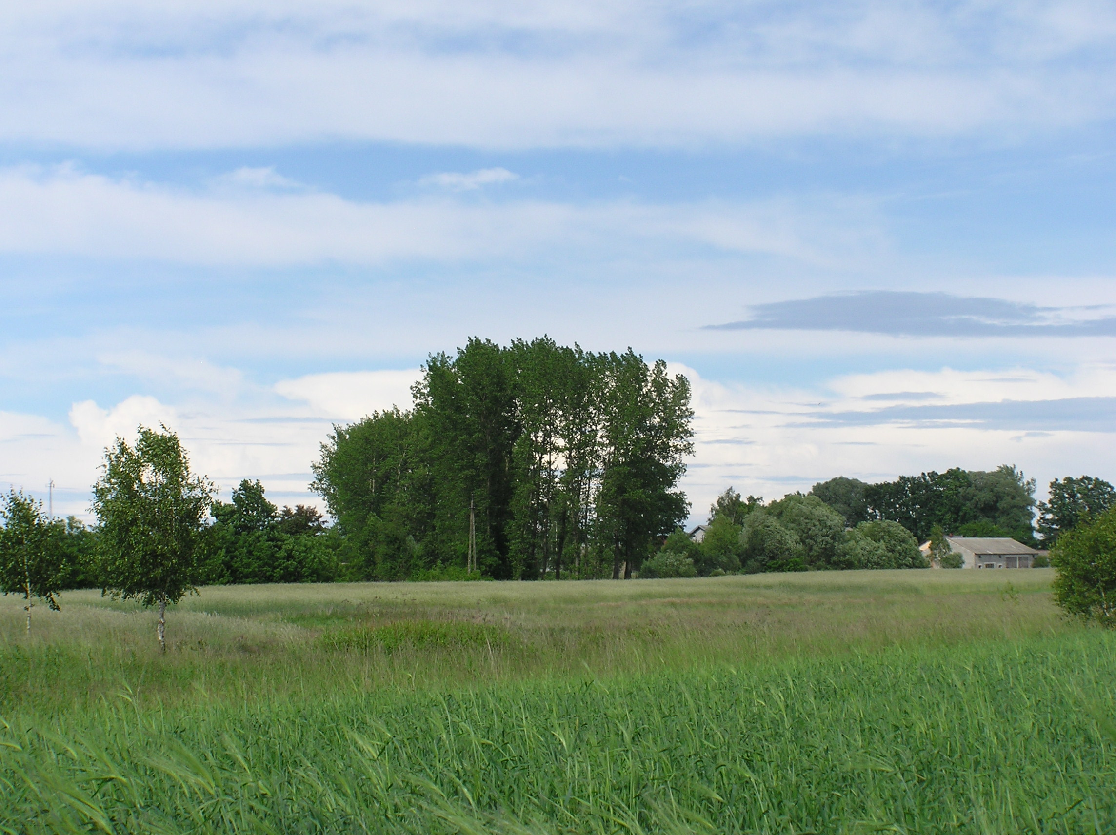 Złoczew (Poland, Łódź Voivodeship, Sieradz County), Starowiejska Street